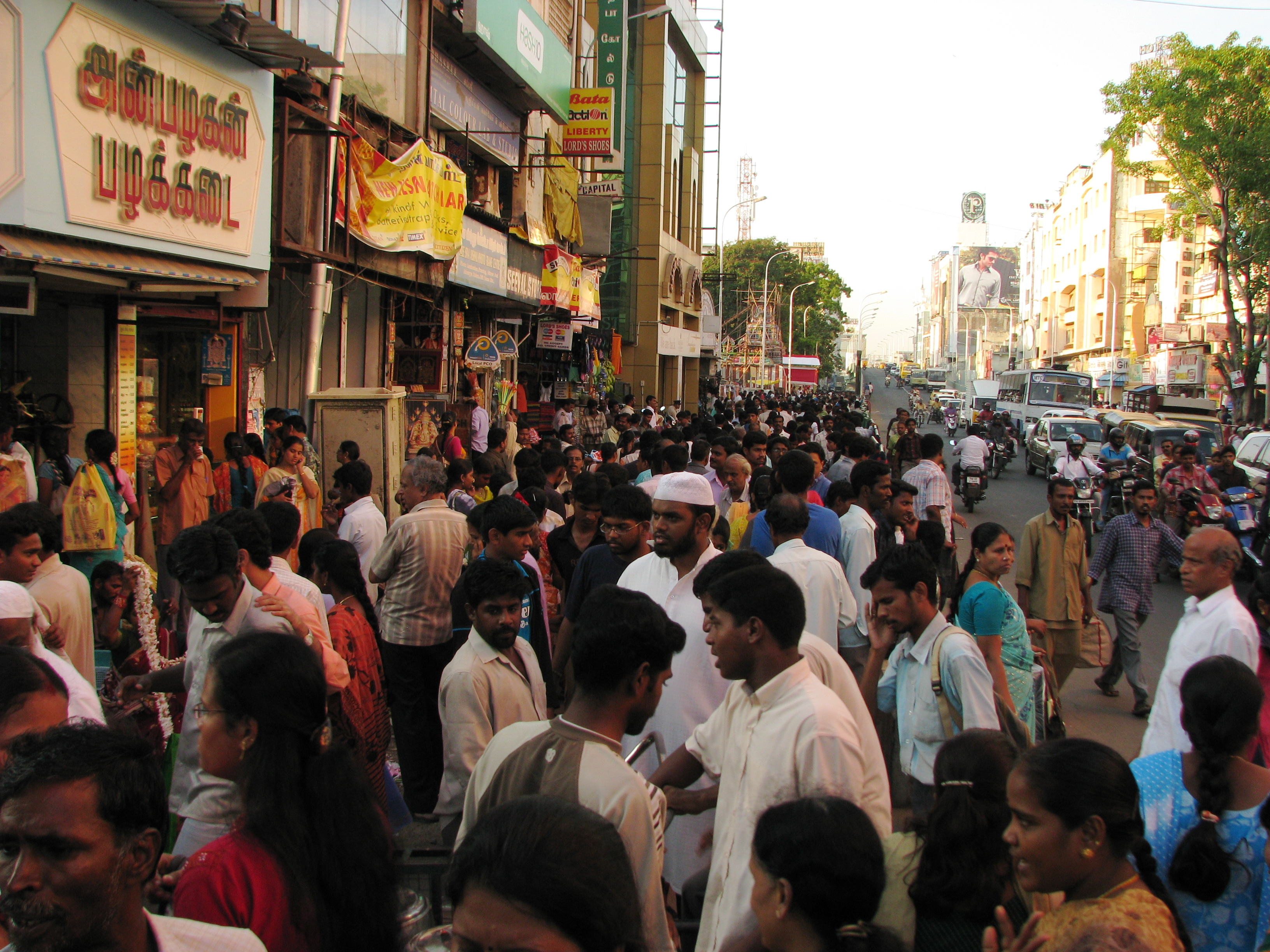 The T. Nagar market area is Chennai's busiest. As well as being the main hub for silk saris and gold in the region, one can also get all jumbled in most anything from housewares and furniture to plastic do-dads and vegetables.